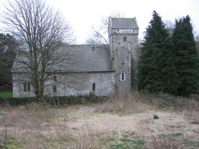 St Michael, Llanmihangel Set in a dip, as often with Welsh churches. Is this the result a Celtic desire to be near a sacred water source?